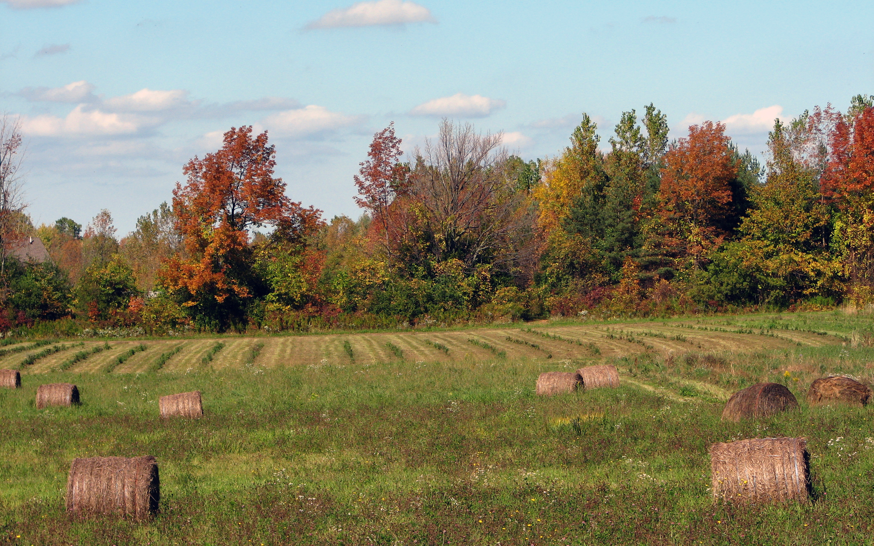 Some hay and trees at a pumpkin patch in Geneseo, New York.